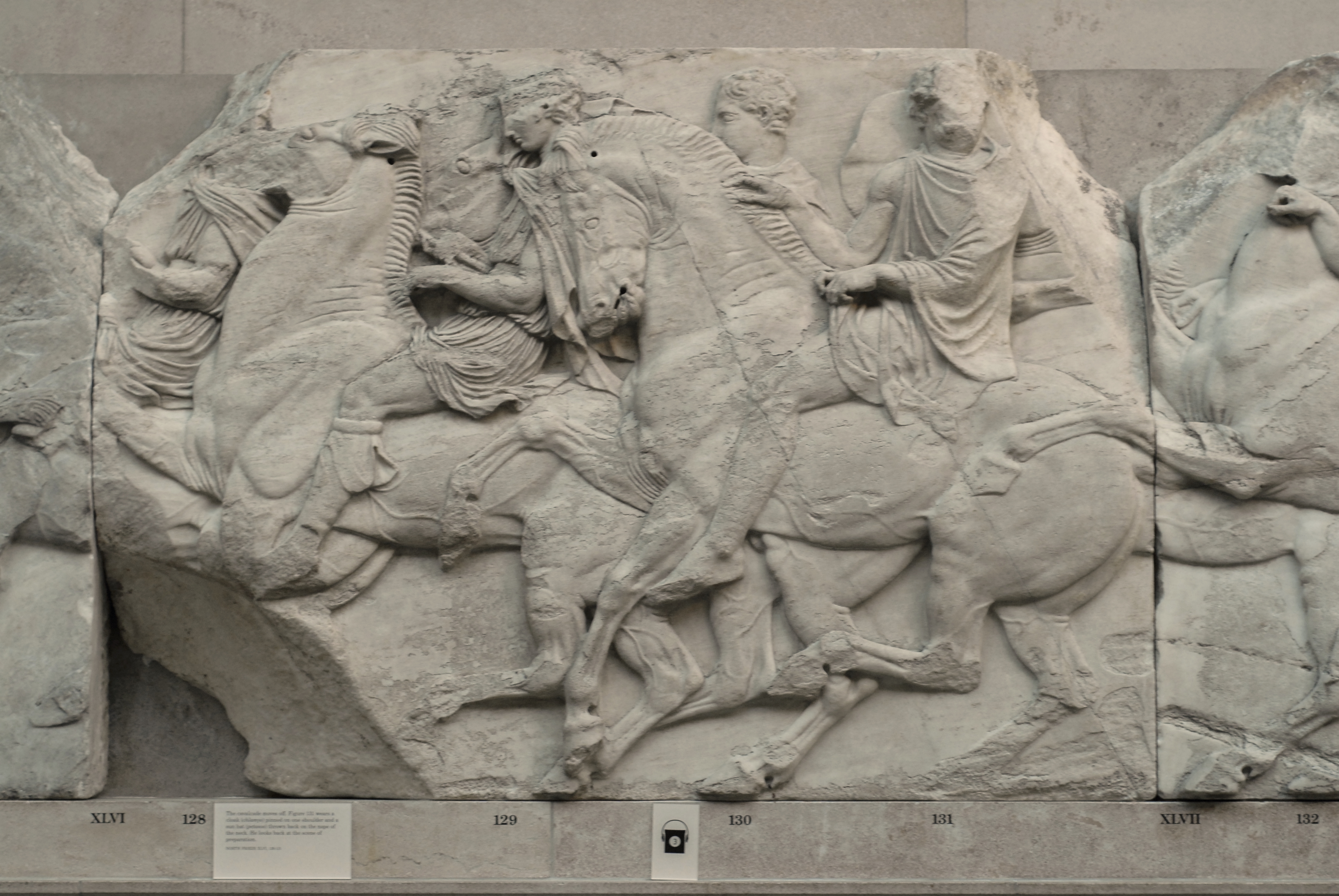 Cavalcade. Block XLVI from the north frieze of the Parthenon, ca. 447–433 BC.